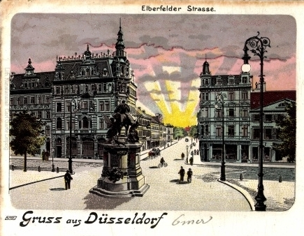 i